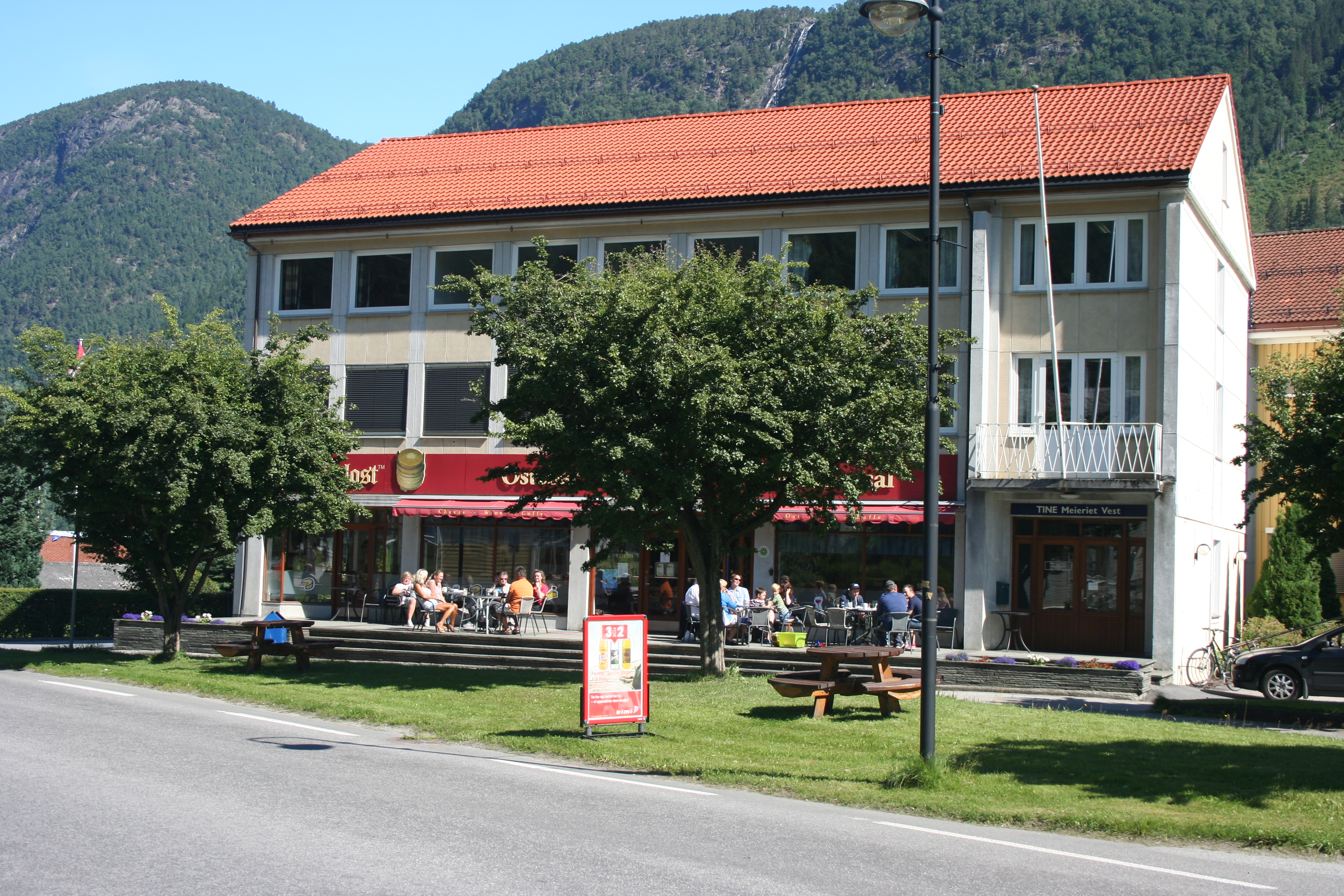 The dairy in Vik (Norway) producing the cheese Gamalost